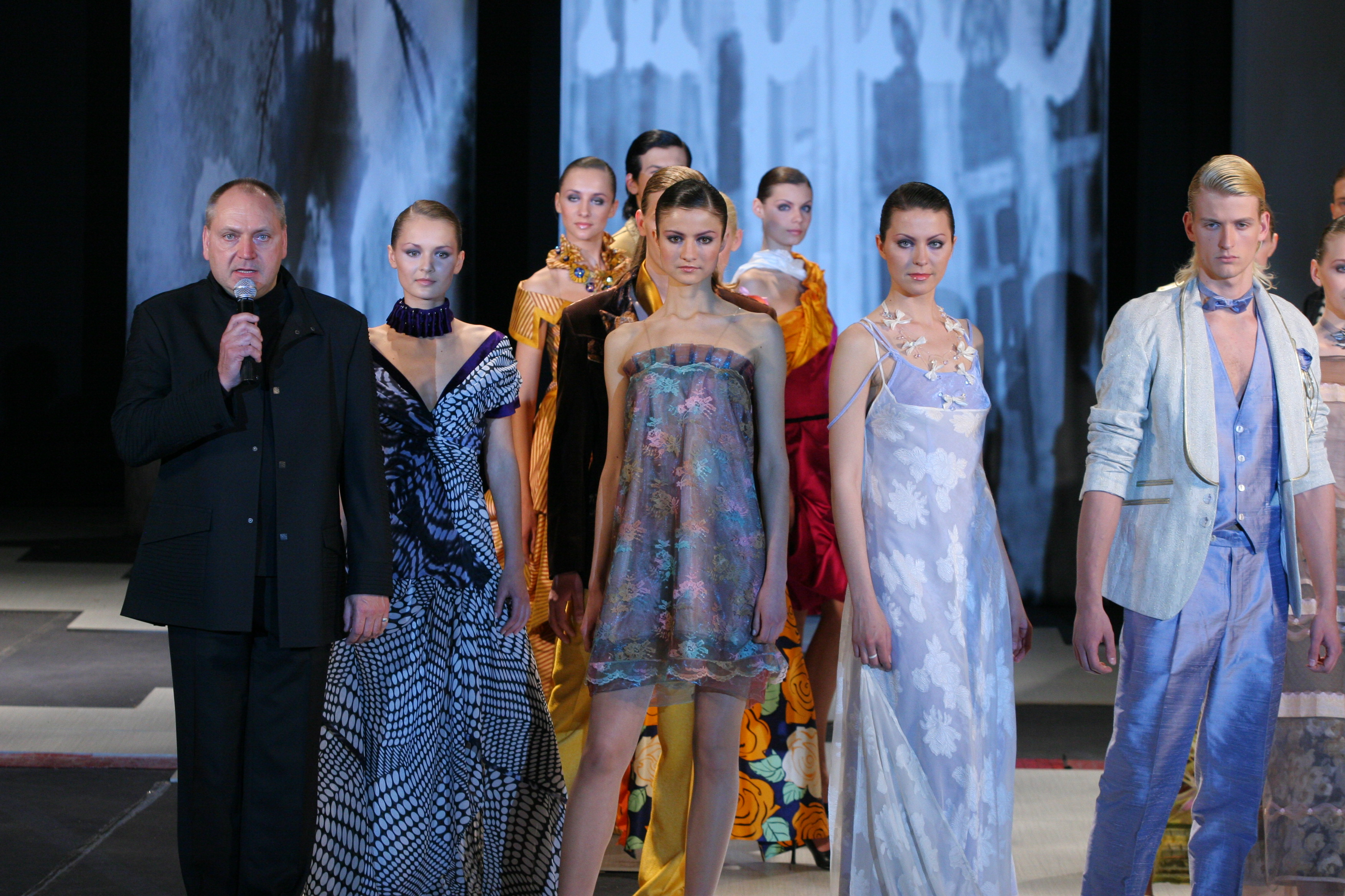 Sasha Varlamov is presenting his project Emotions of a form. Mill of fashion, Minsk (Belarus), 2006 AD